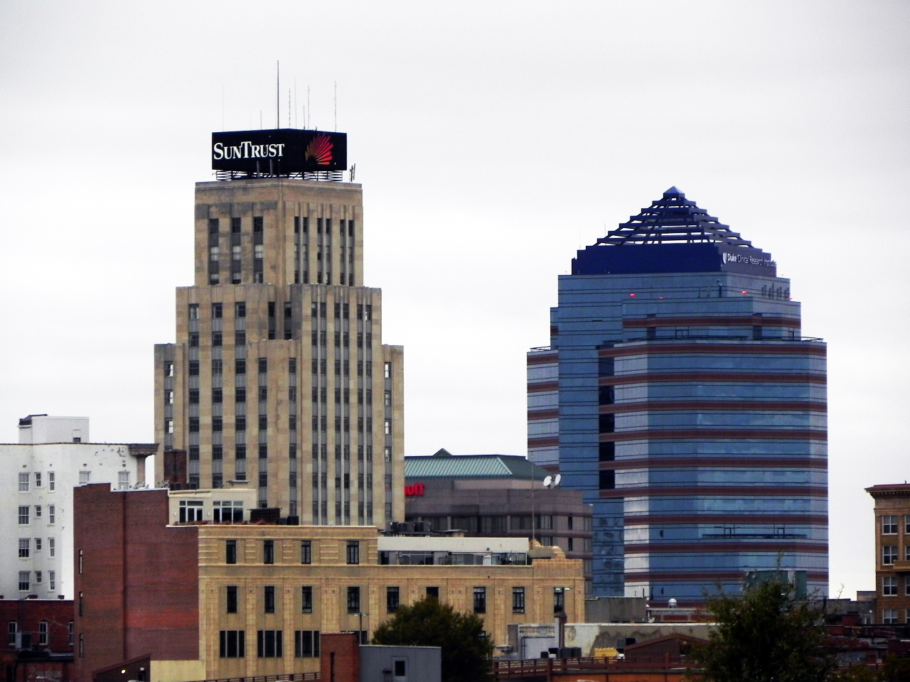 Downtown Durham